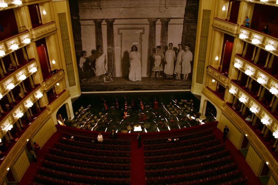 Vienna, Austria: Wiener Staatsoper (State Opera), Auditorium and Iron Curtain